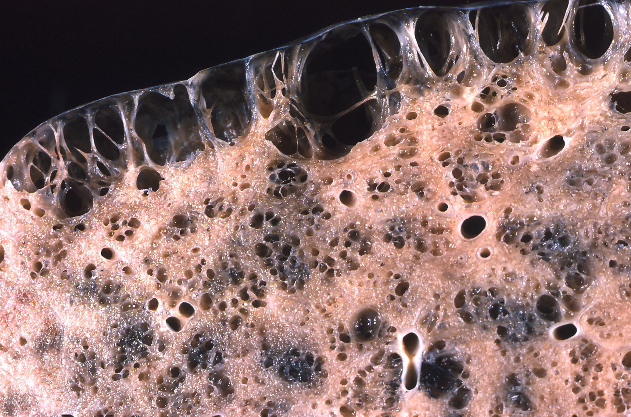 Large, prominent subpleural bullae. Spontaneous pneumothorax often results from rupture of such lesions. Honeycomb fibrosis is present in the subpleural lung parenchyma. In emphysema the spaces resulting from alveolar wall destruction have thin, delicate walls without intervening fibrosis and resemble the appearance of a spider web. In honeycomb fibrosis the abnormal spaces resulting both from alveolar wall destruction and dilatation of small airways are separated by broad bands of fibrous tissue thus resembling a bee's honeycomb.